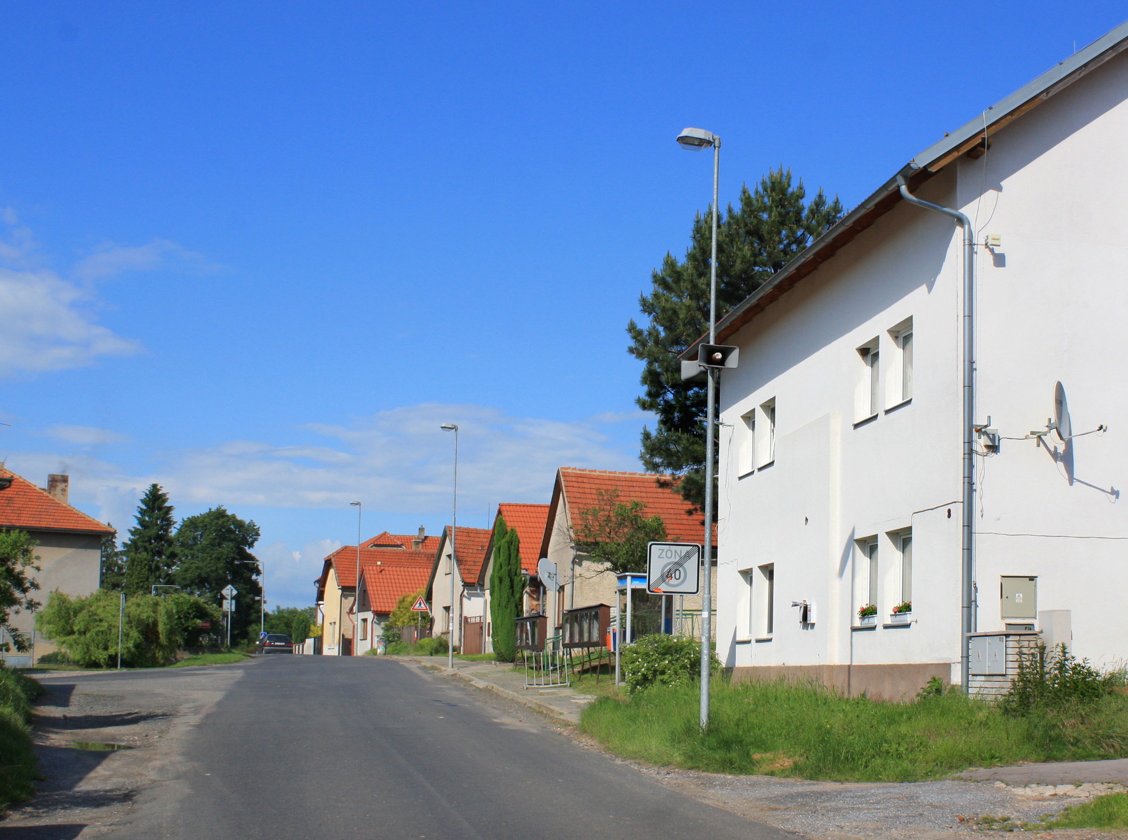 Middle part of Tatce village, Czech Republic